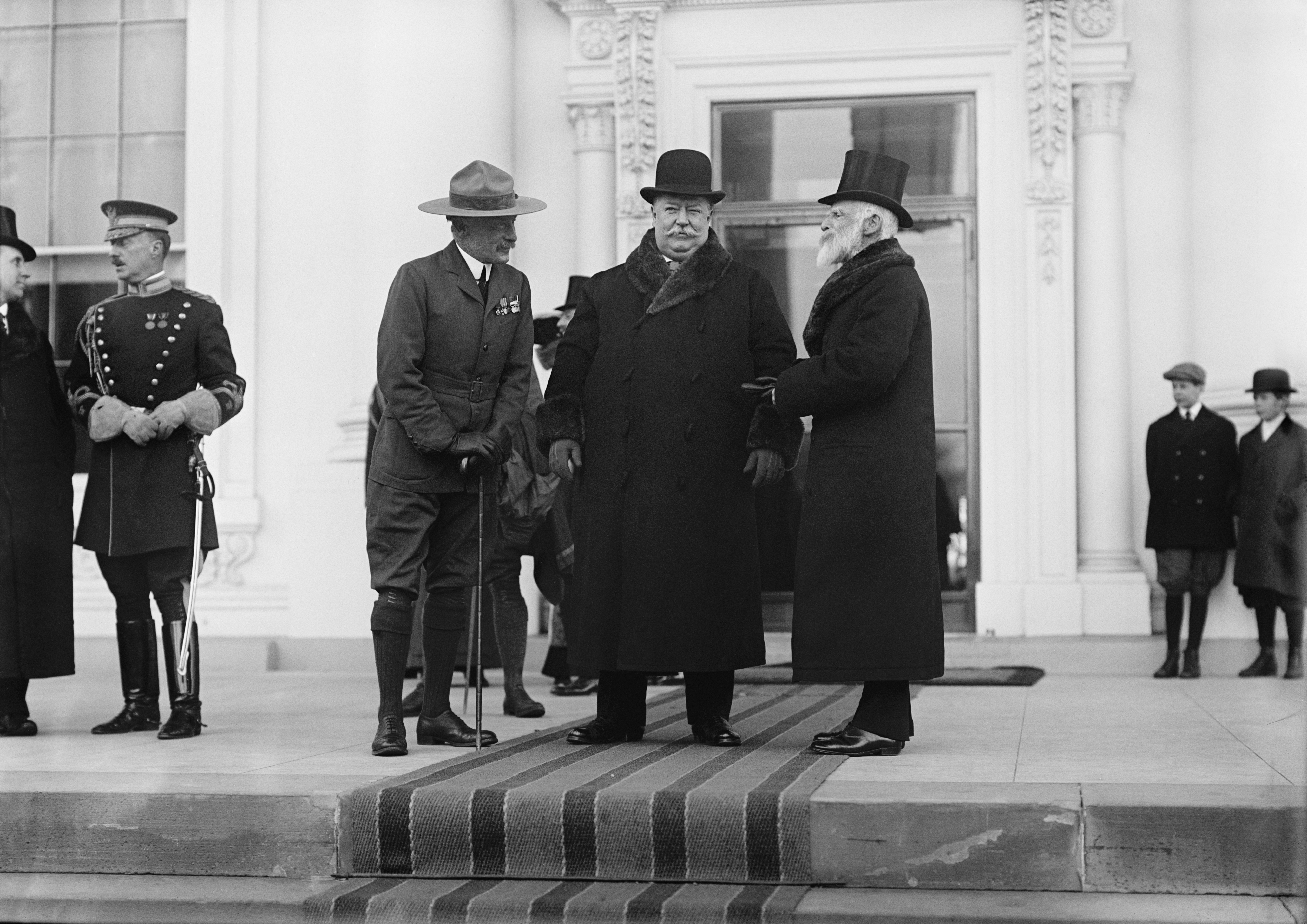 (l. to r.) Unknown, Archibald Butt, Robert Baden-Powell, William Taft, James Bryce. (Original title: "BADEN-POWELL, SIR ROBERT, [WILLIAM H. TAFT], BUTT, ARCHIBALD WILLINGHAM FOUNDER OF BOY SCOUTS [WITH TAFT]"). 1 negative: glass; 5 x 7 in. or smaller